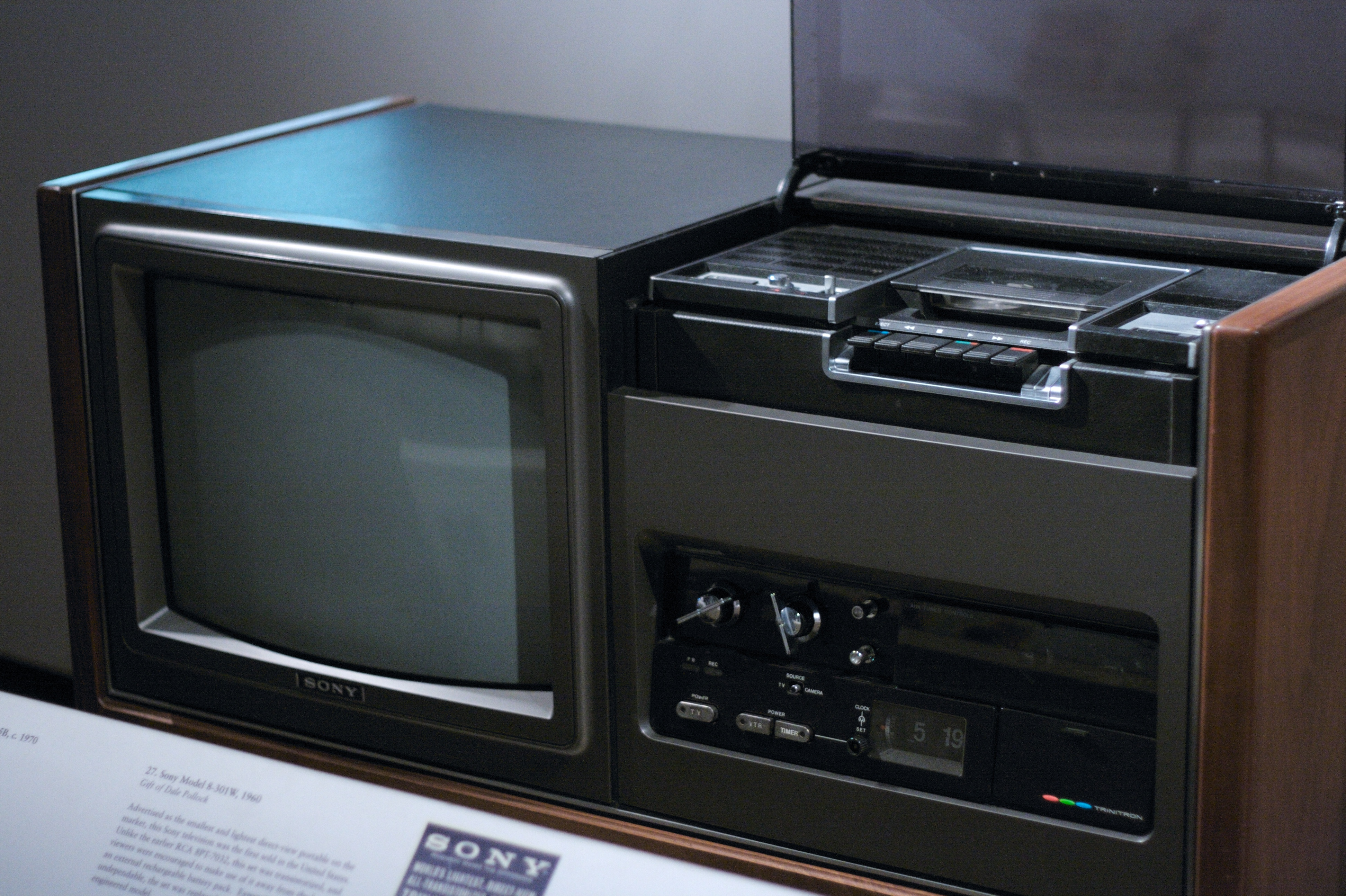 Sony LV-1901D (1975) 19" Trinitron Television integrated with first Betamax recorder SL-6200 X-1, MoMI An early (first?) Sony Trinitron TV set integrated with a Betamax videotape recorder. 1975. Model LV-1901 D.